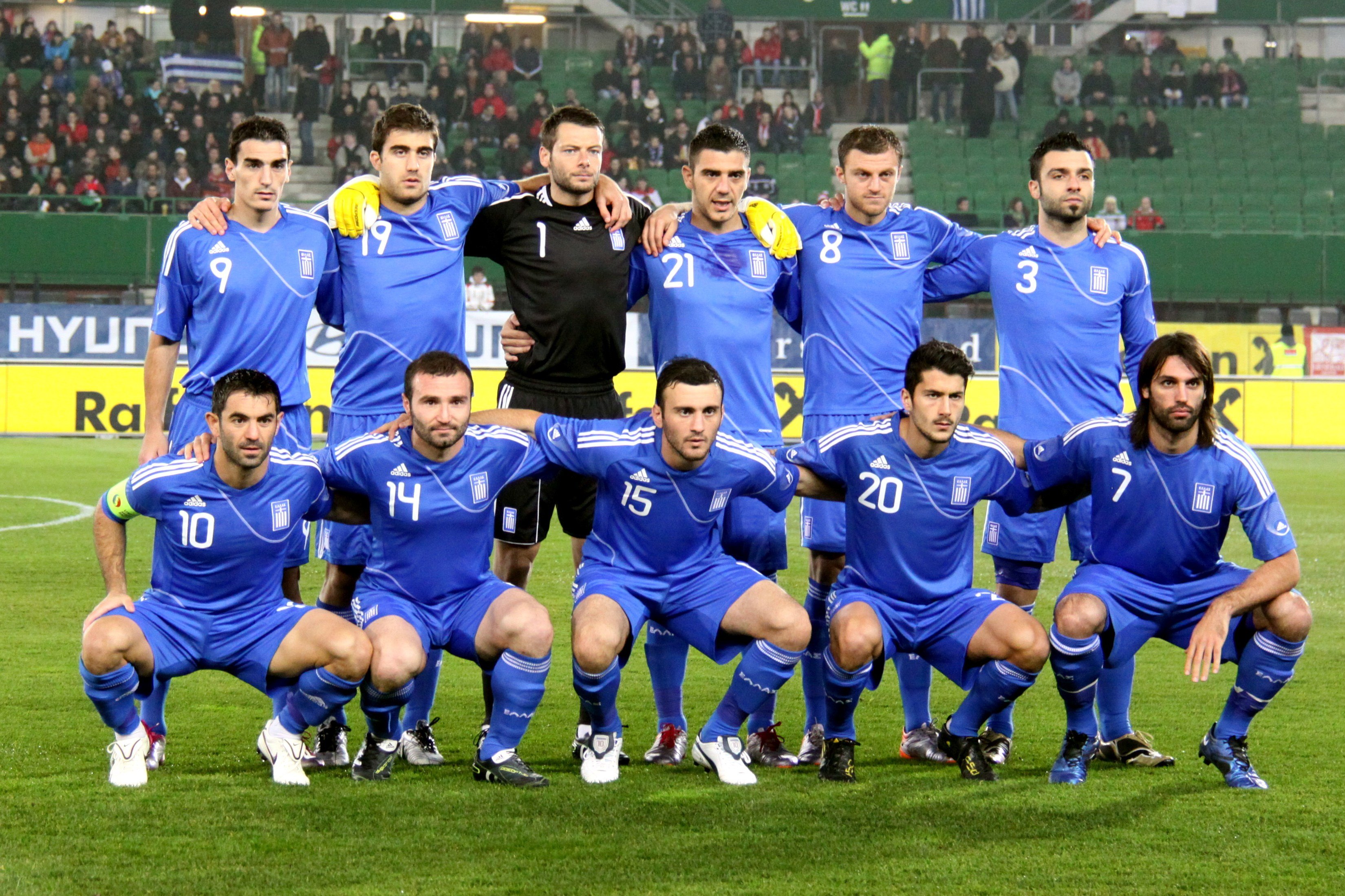 Greece national football team against the Austrian national football team (2:1)